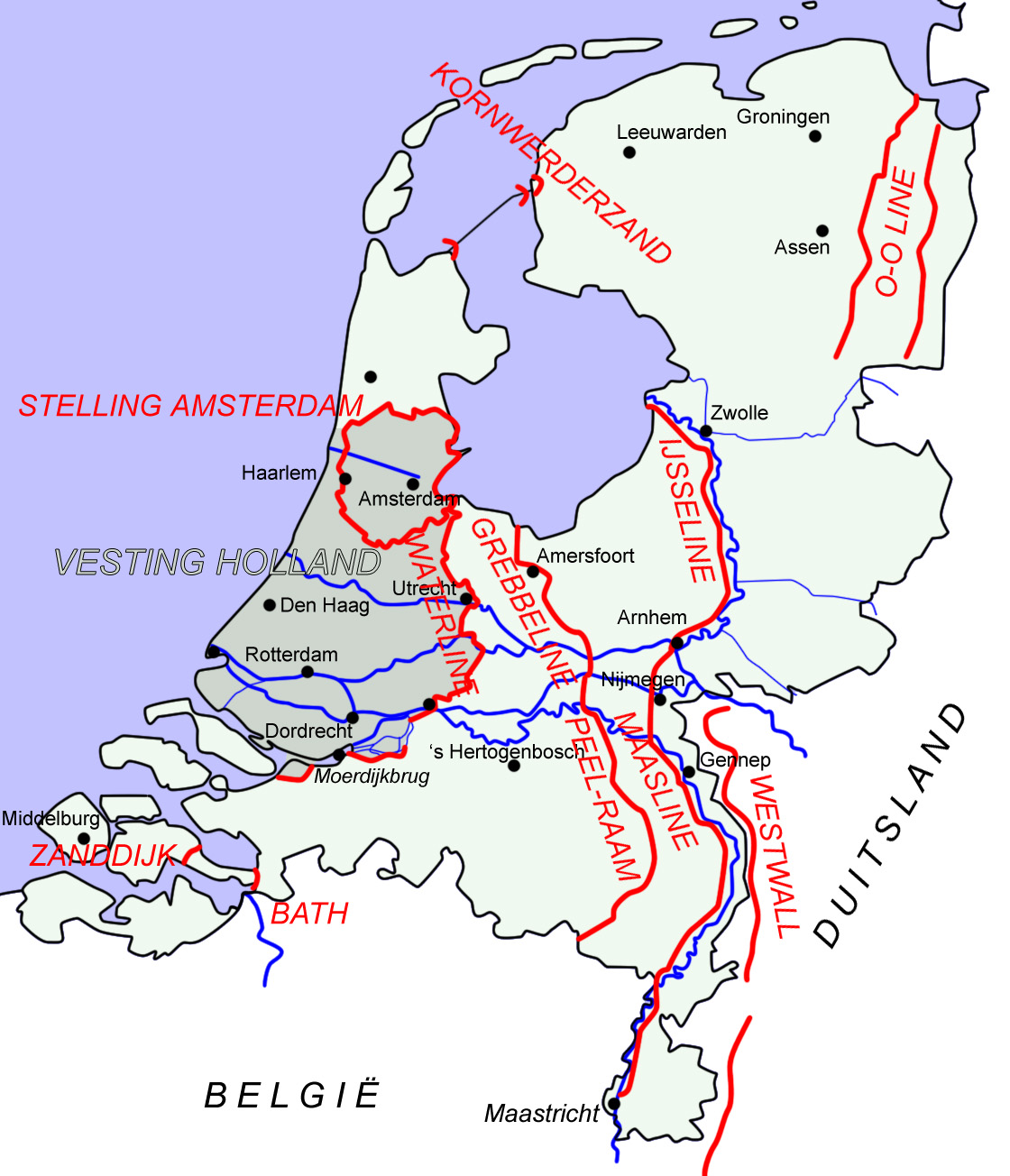 Overview of military defensive lines in the Netherlands in may 1940. Disclaimer: The exact location of the forts and lines may differ from reality to a slight extent.